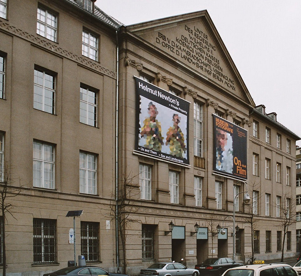 Museum for photographie in former Landwehrkasino, Berlin Jebensstrasse, december 2004